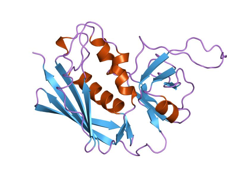 Cartoon representation of the molecular structure of protein registered with 3seb code.